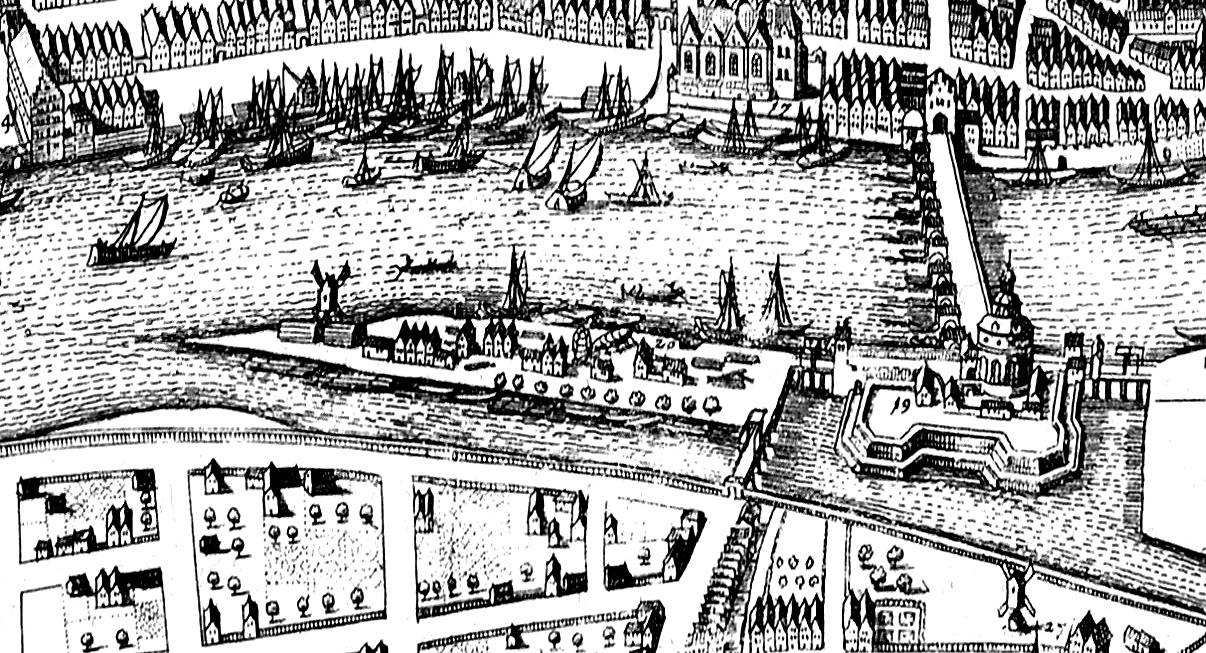 The Bremer Teerhof 1640–41 – Clipping from the map Brema by Matthäus Merian dem Älteren.